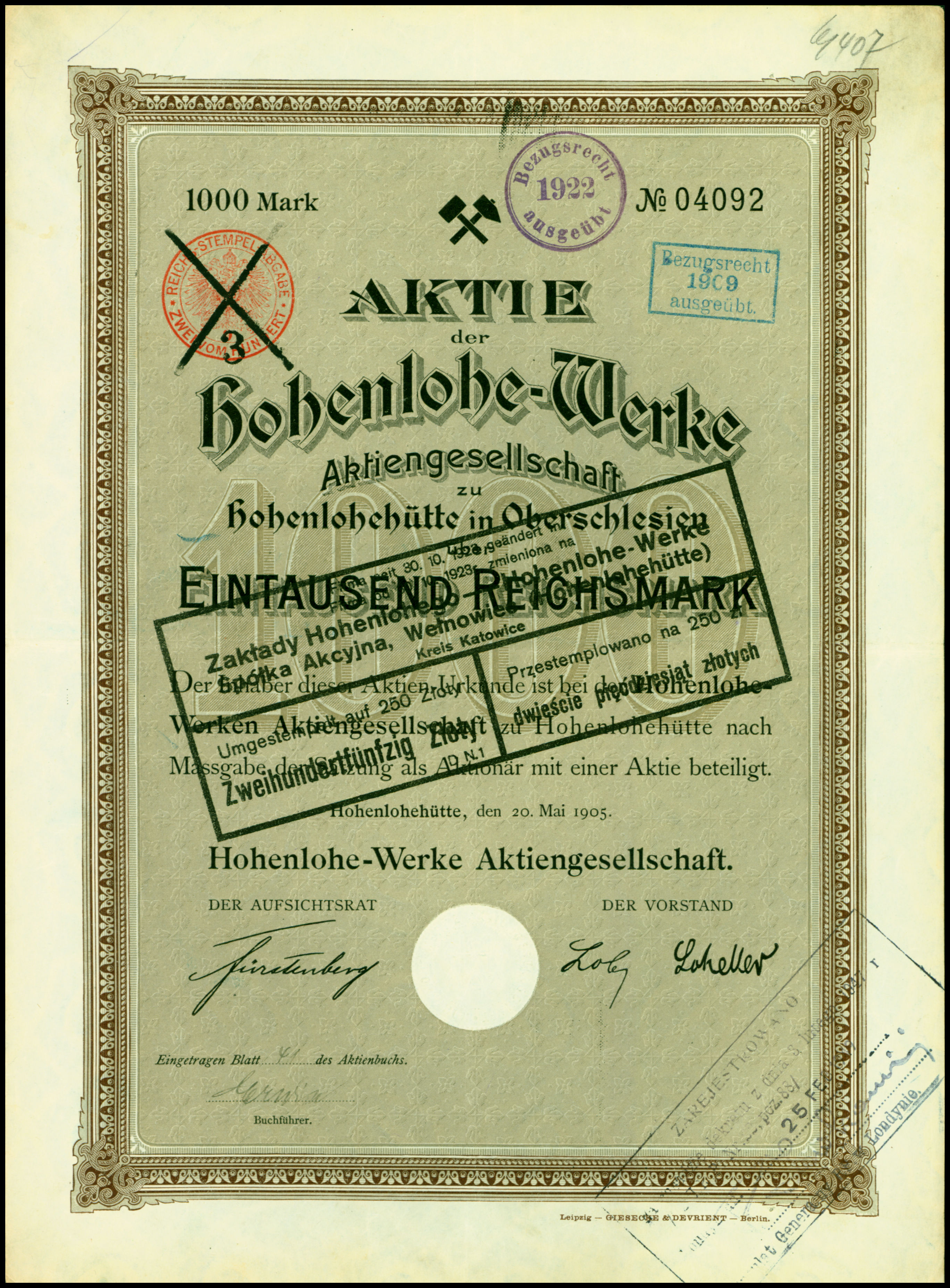 Share of the Hohenlohe-Werke, issued 20. May 1905